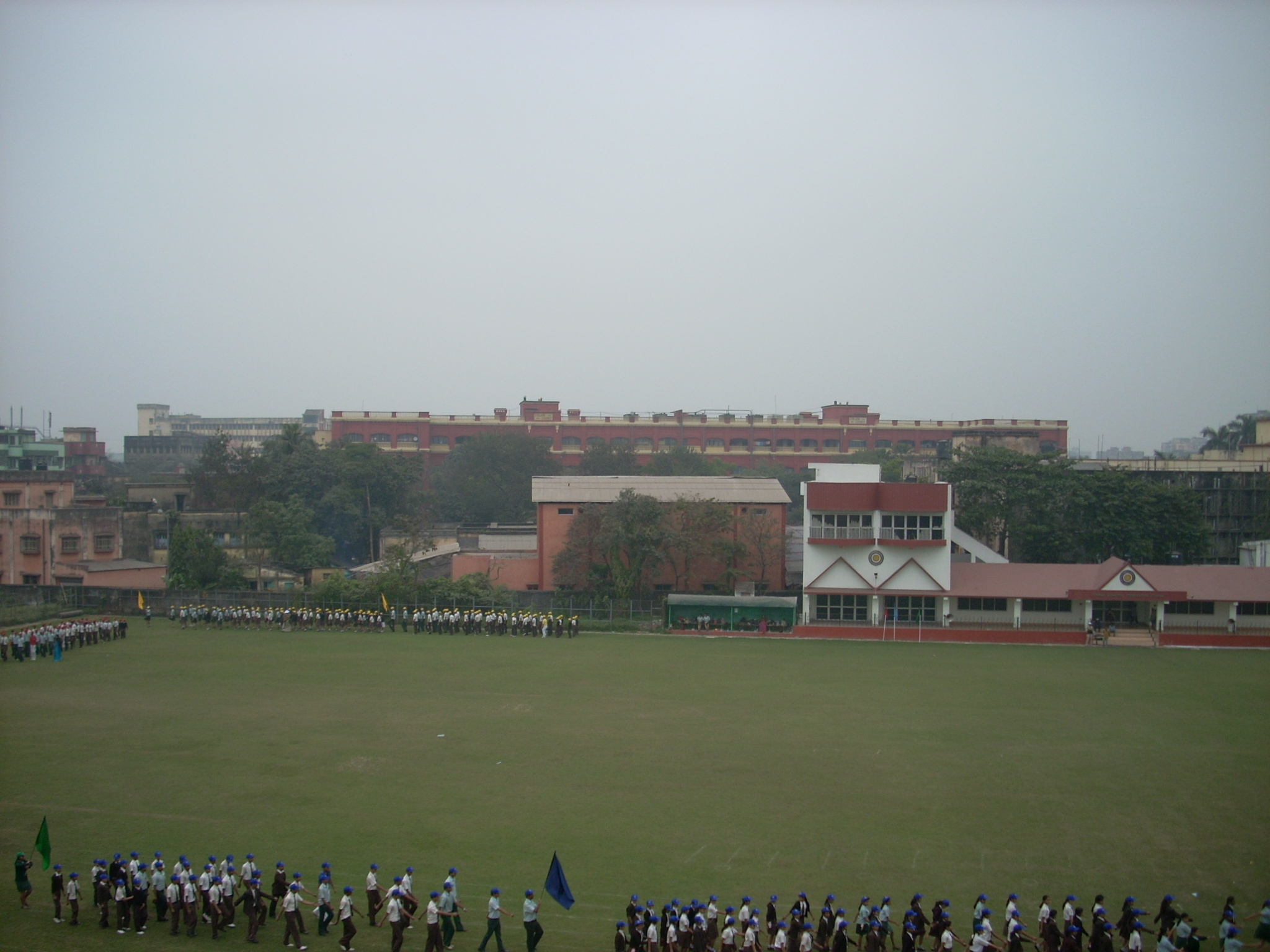 Depicted place: Sailen Manna Stadium